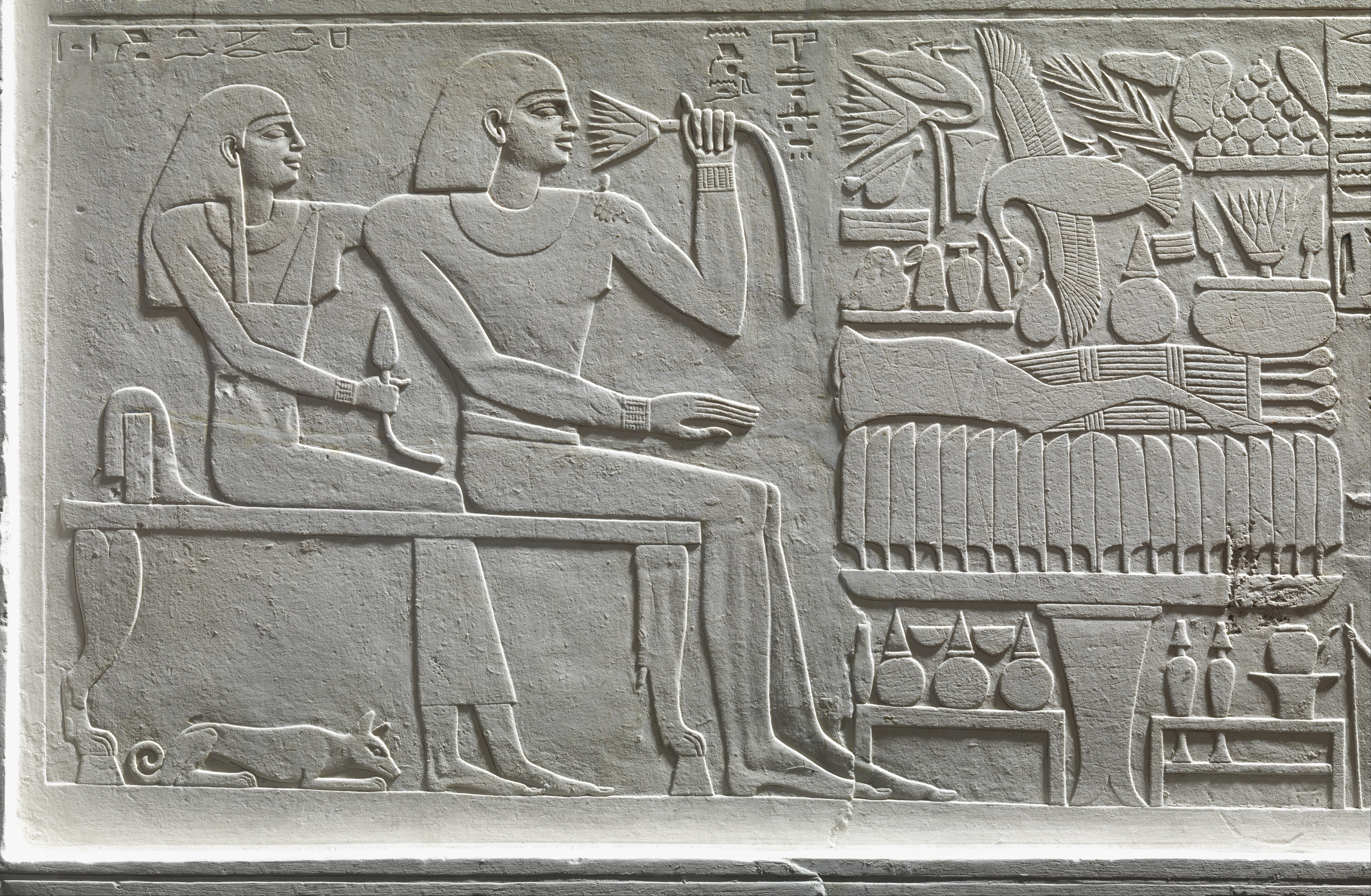 Stela, Intef, Iti